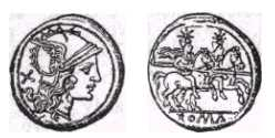 Denarius from the times of the Roman Republic